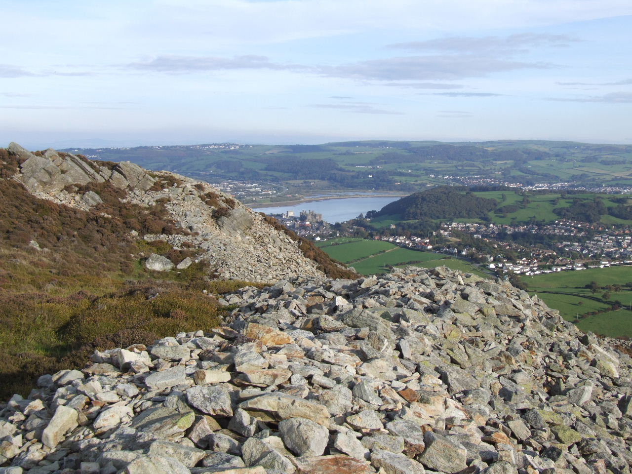 Caer Seion hillfort, near Conwy, Conwy County, Wales. View of part of the southern defensive wall with Afon (river) Conwy, Conwy Castle and Gyffin in the distance.